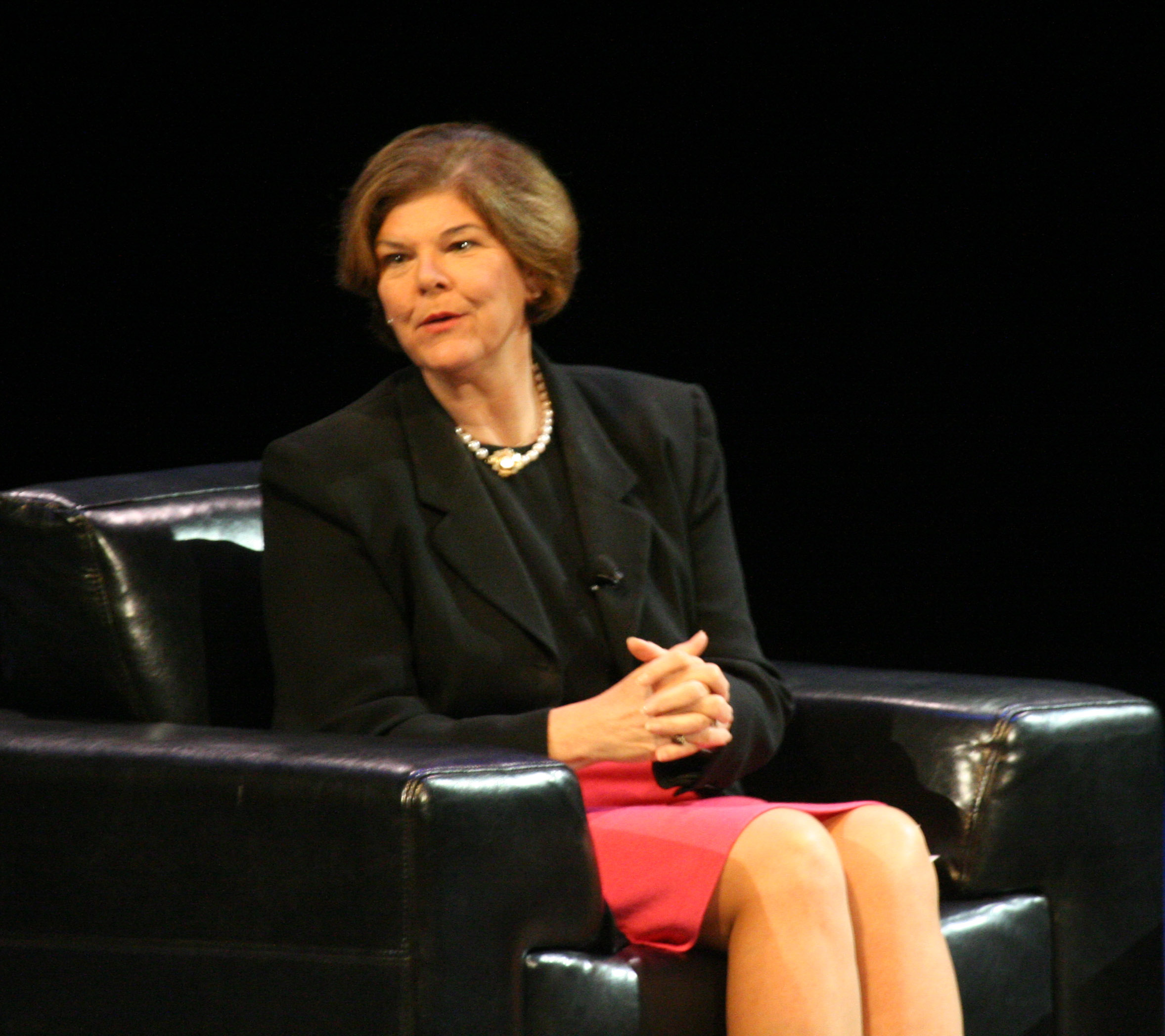 Ann Compton